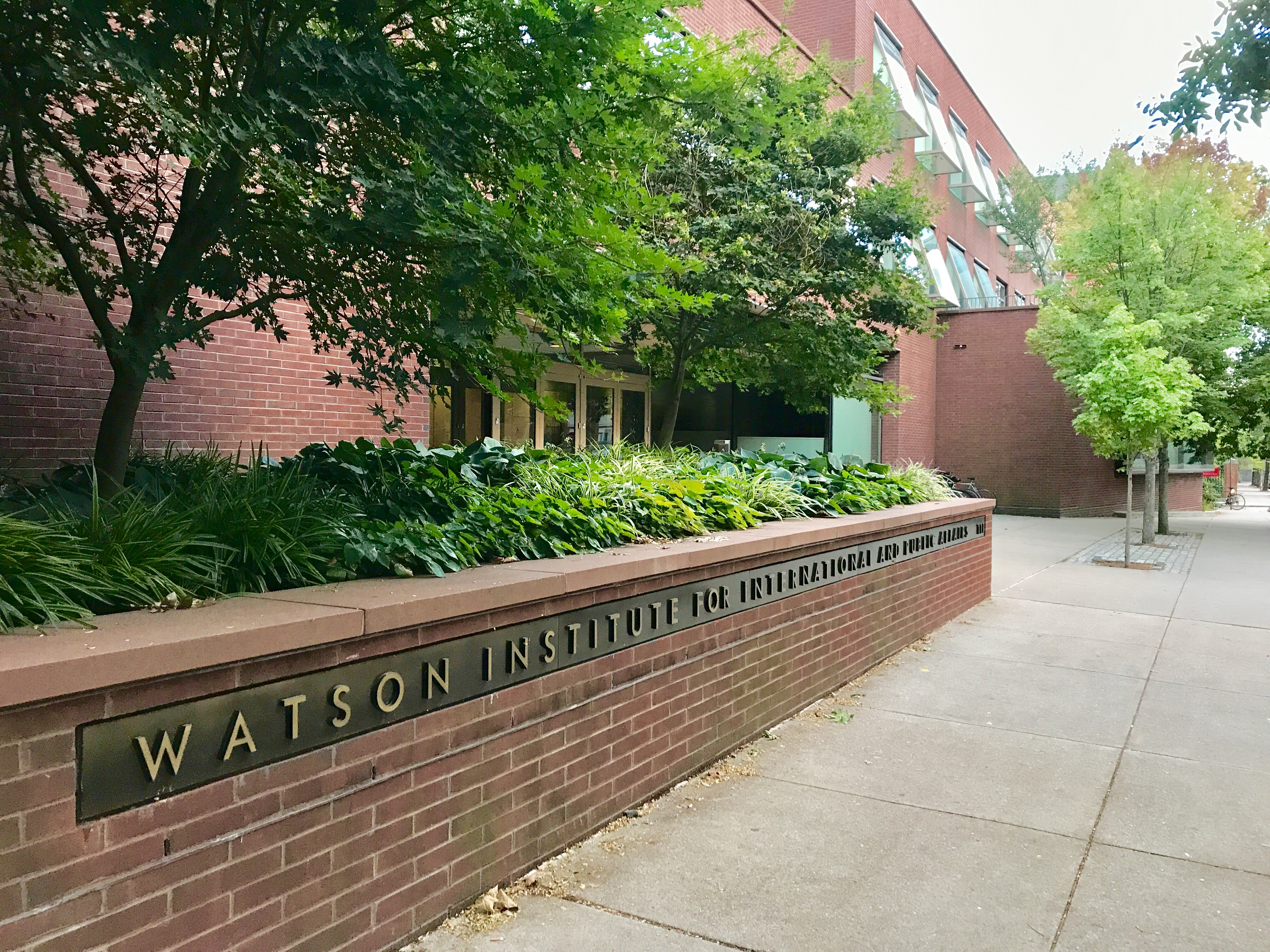 Watson Institute at Brown University. Designed by Rafael Viñoly and dedicated in 2002. Providence, United States, September 2017